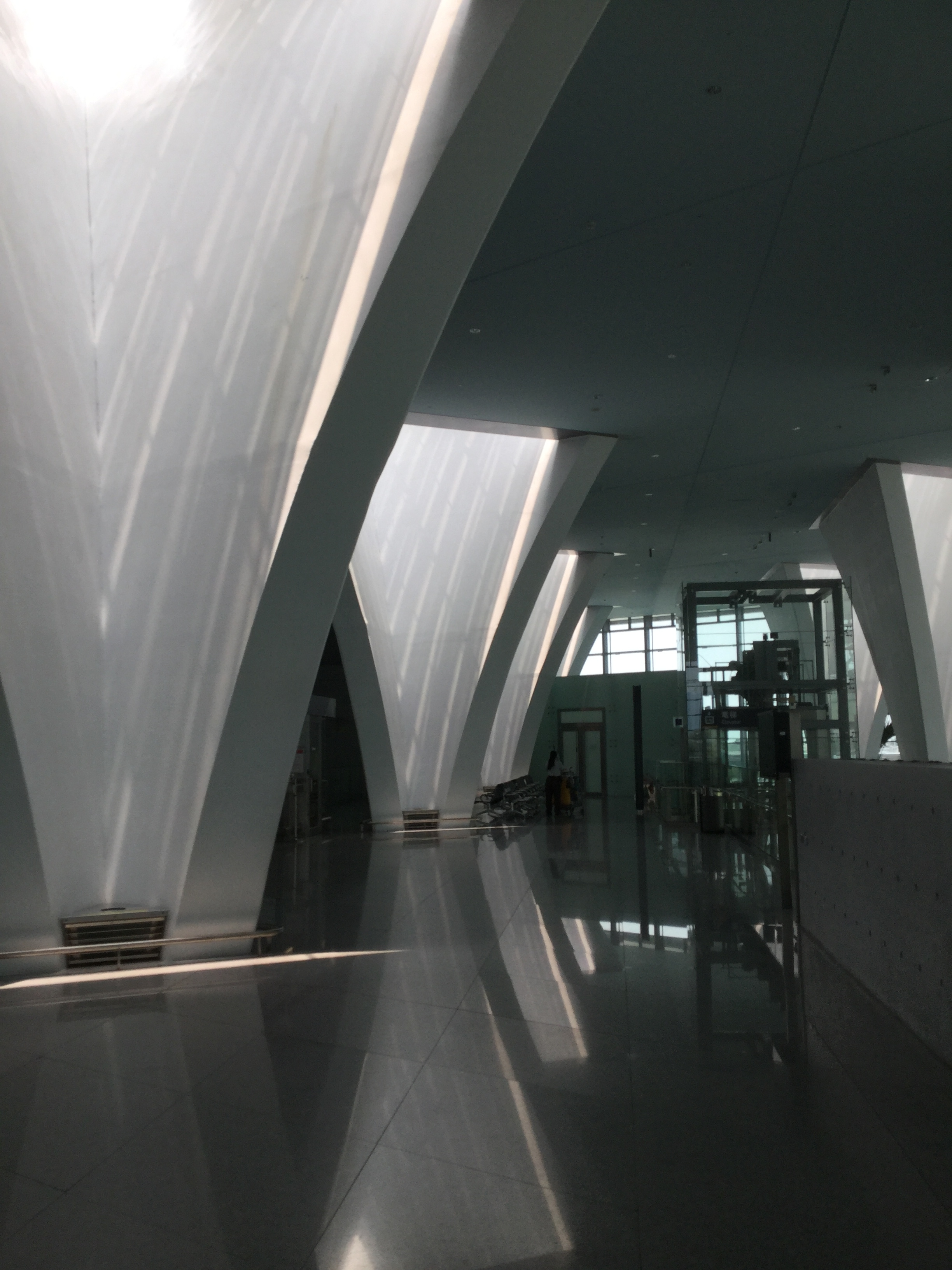 THSR Changhua Station concourse